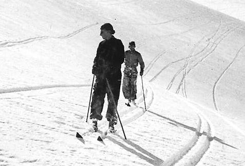 Skiers in Adelboden 1938. Picture of the submitter's parents now both deceased.